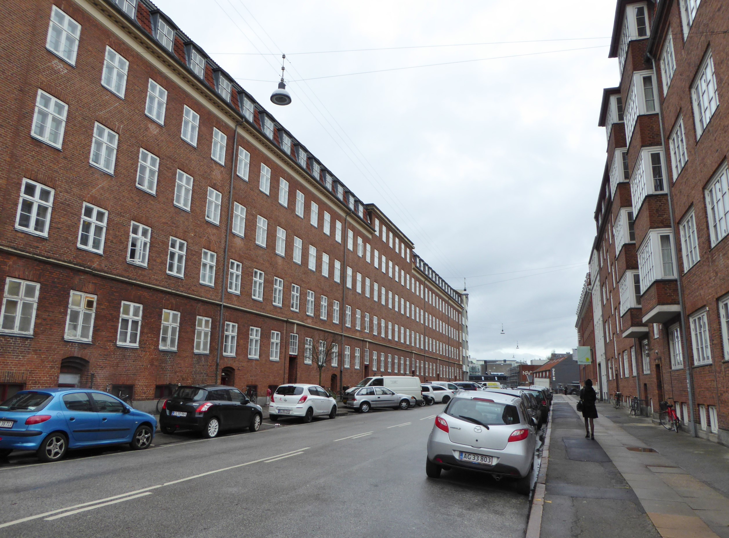 The street Masnedøgade in Østerbro in Copenhagen.